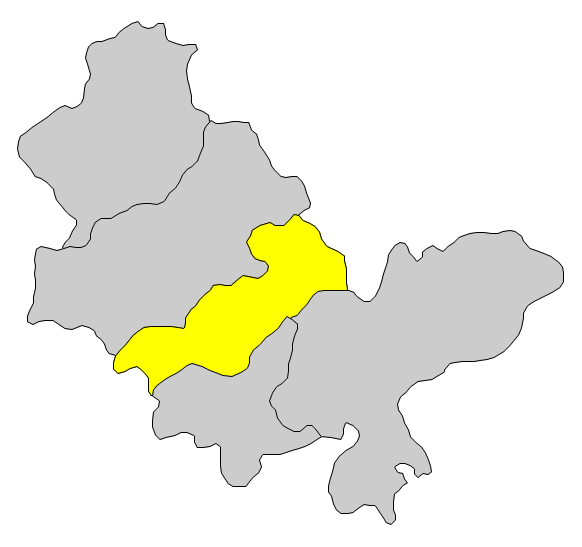 Location of Huicheng District, Huizhou